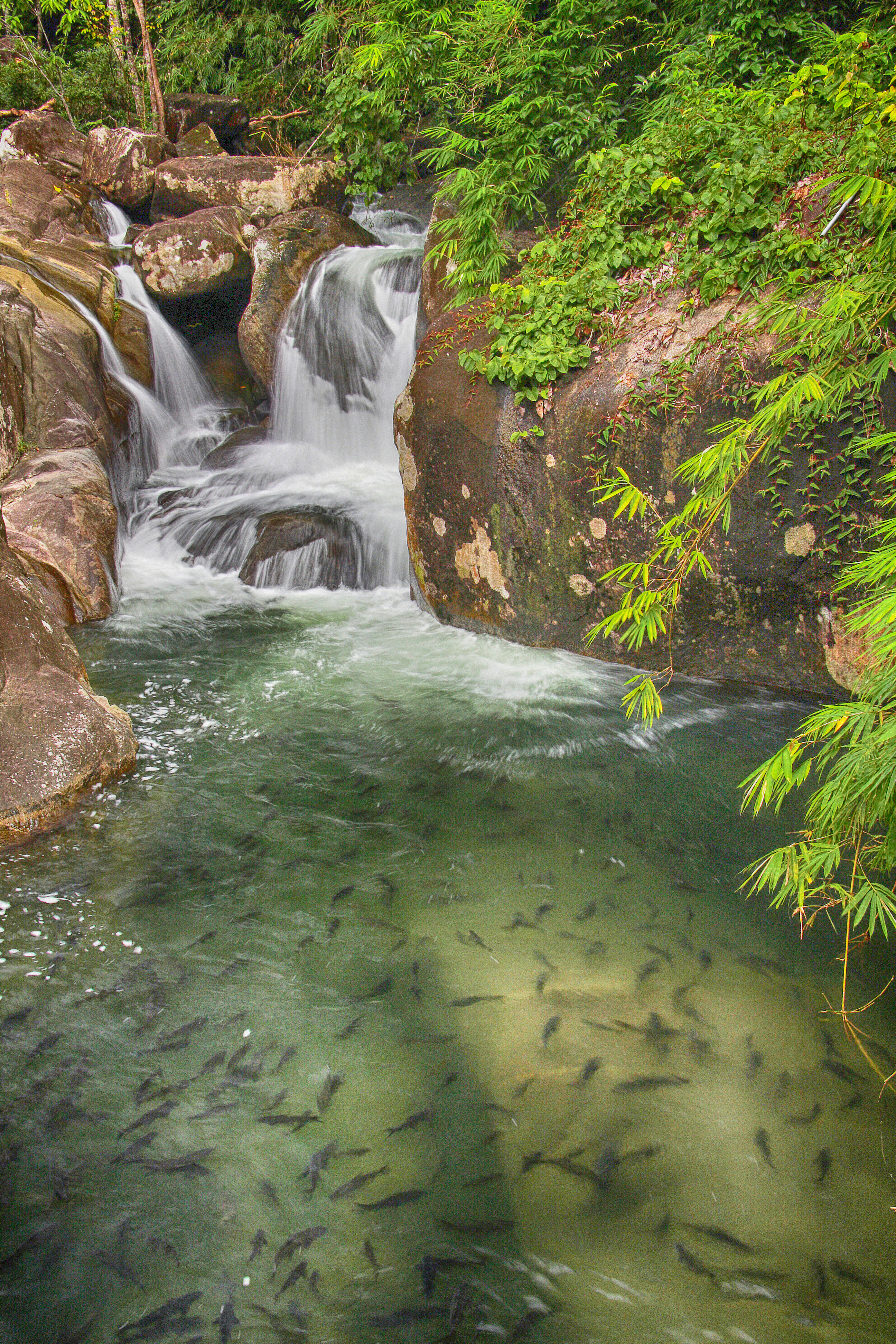 Khao Chamao (Khlong Nam Sai) Waterfall, Khao Chamao–Khao Wong National Park, Rayong Province